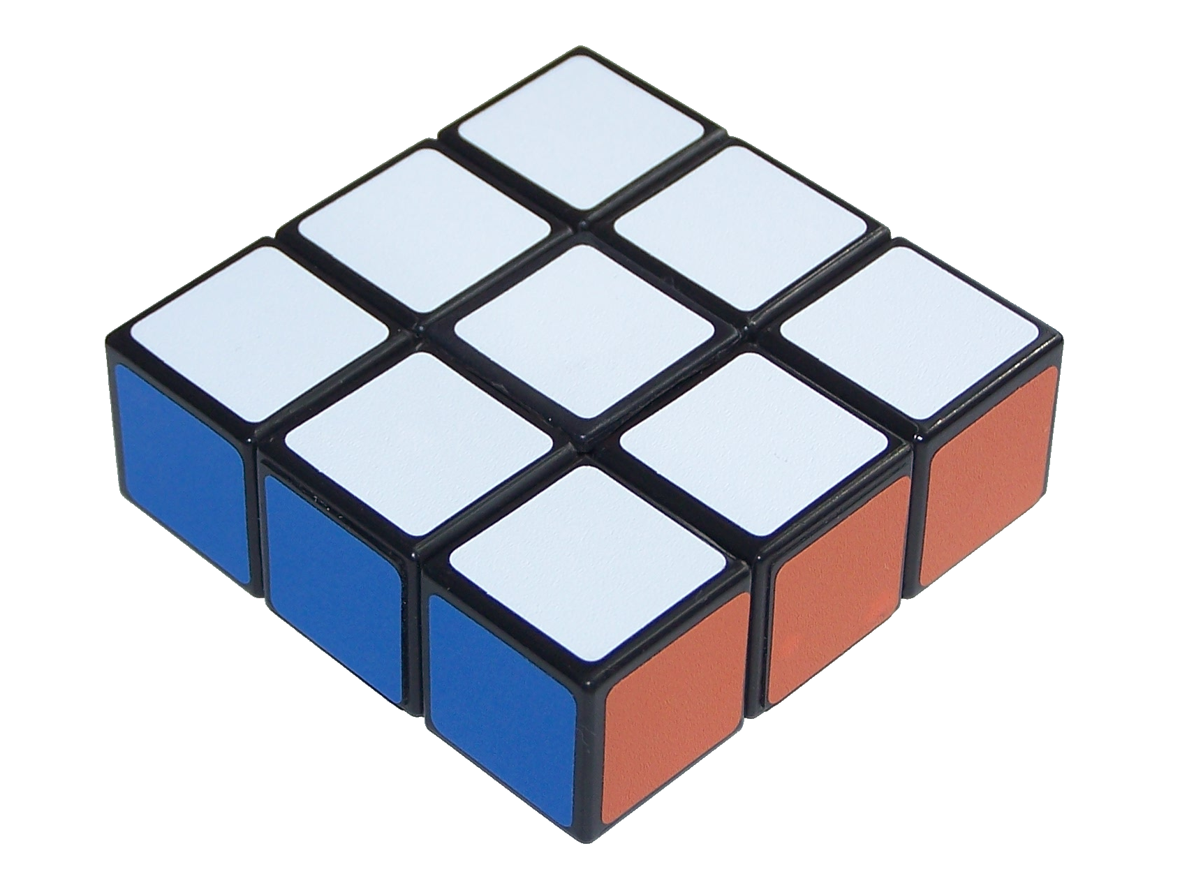 This kind of Rubik's Cube is called Floppy Cube or 3×3×1. You can see it here in the solved state. His mechanism allows to turn the front, the right, the back and the left side, and also the two inner layers 180°. You can them turn 90°, too, but then you can't turn anything else, without turning your side the rest of the 180° (and the two layers, which are parallel to your side). The total number of permutations of the Floppy Cube is 192 and you can it solve always in less or exactly 8 moves.